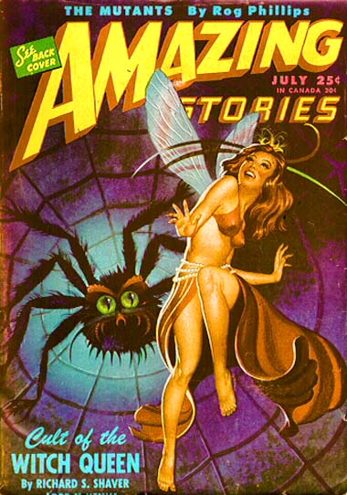 Cover of Amazing Stories, July 1946